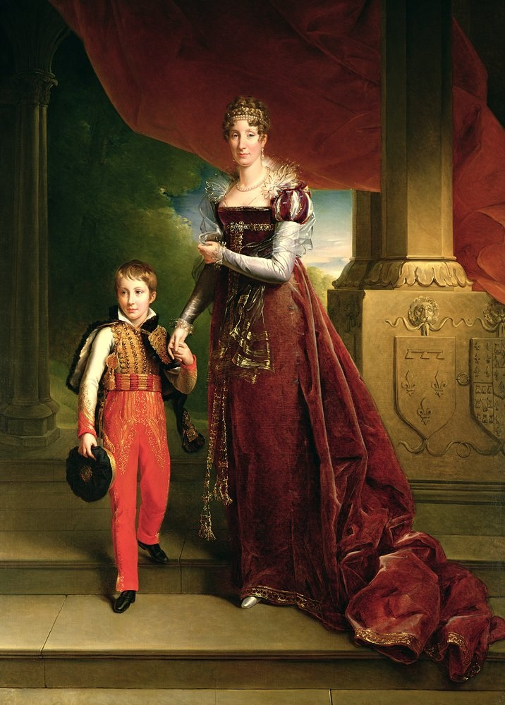 Marie Amélie, Duchess of Orléans with her son the Duke of Chartres